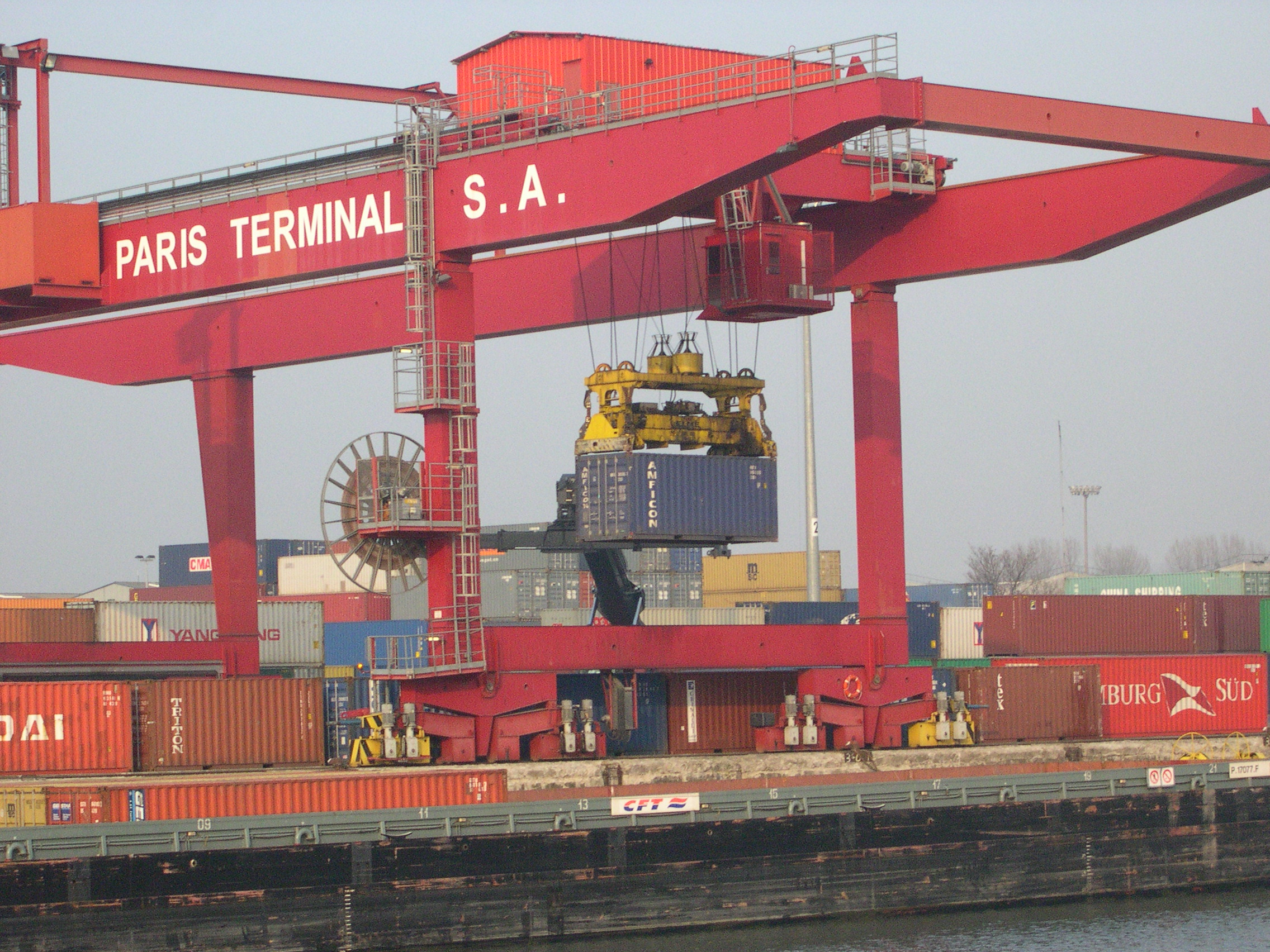 Little portainer on Gennevilliers docksides near Paris